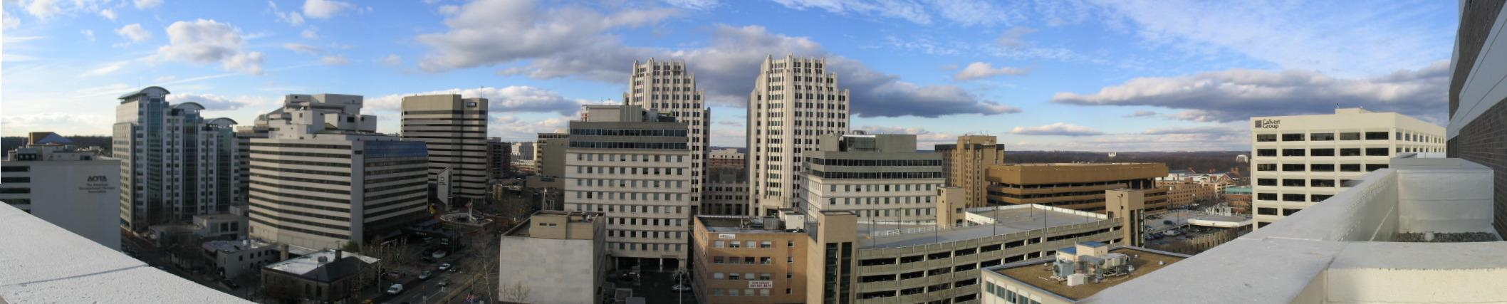 Panorama of Downtown Bethesda, Maryland, in February 2005. Photographed and assembled by User:Erifnam. Category:Images of Maryland